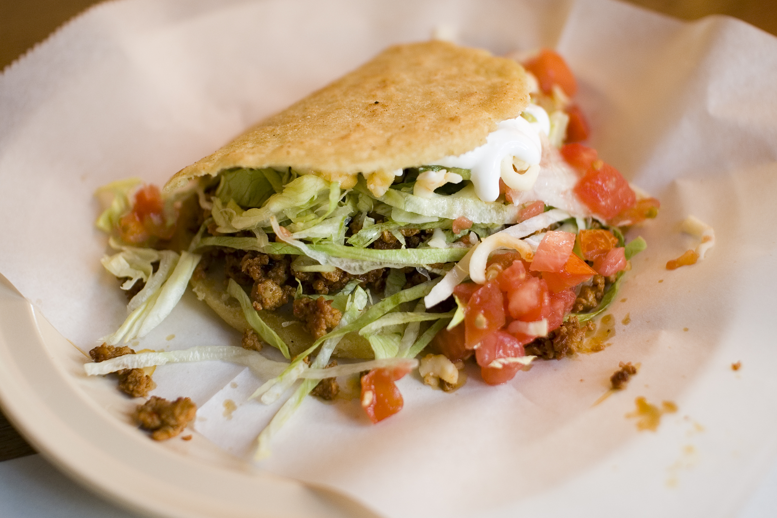 A gordita, a Mexican food characterized by a small, thick tortilla made with masa (corn flour), as served at Arturo's Tacos in Chicago, Illinois.